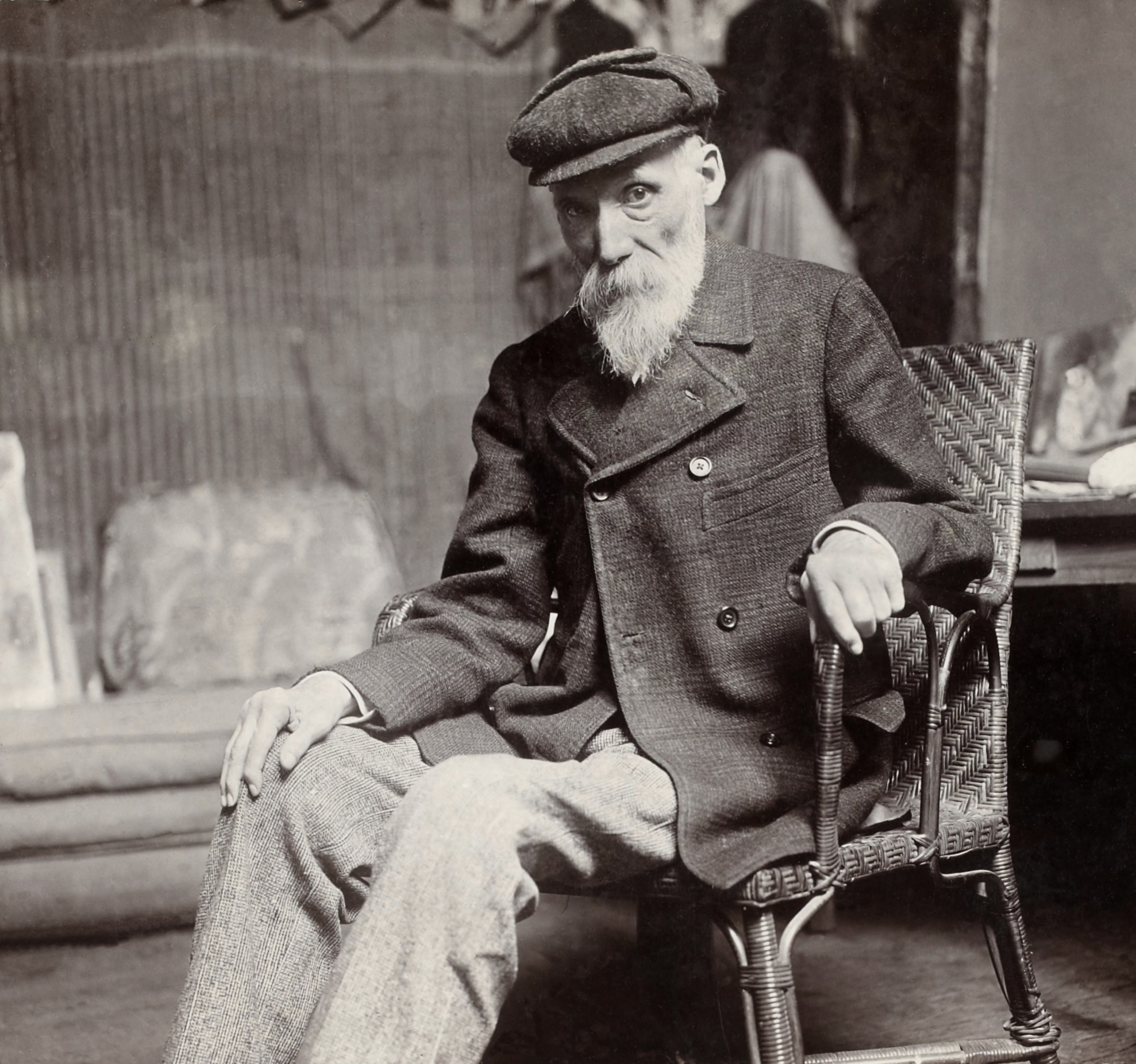 Pierre-Auguste Renoir (1841 - 1919), french painter.